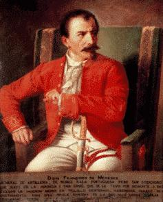 La Colecciòn de Retratos de los Presidentes del Coloniaje. The collection of Portraits of the Governors of Chile is in the Museo Histórico Nacional (Chile) and was commissioned by Benjamín Vicuña Mackenna for the 1873 Colonial Exhibition and painted by various artists. It replaces a series of portraits of Chile's colonial governors dating from the colonial era which was destroyed during the wars for independence. [1].